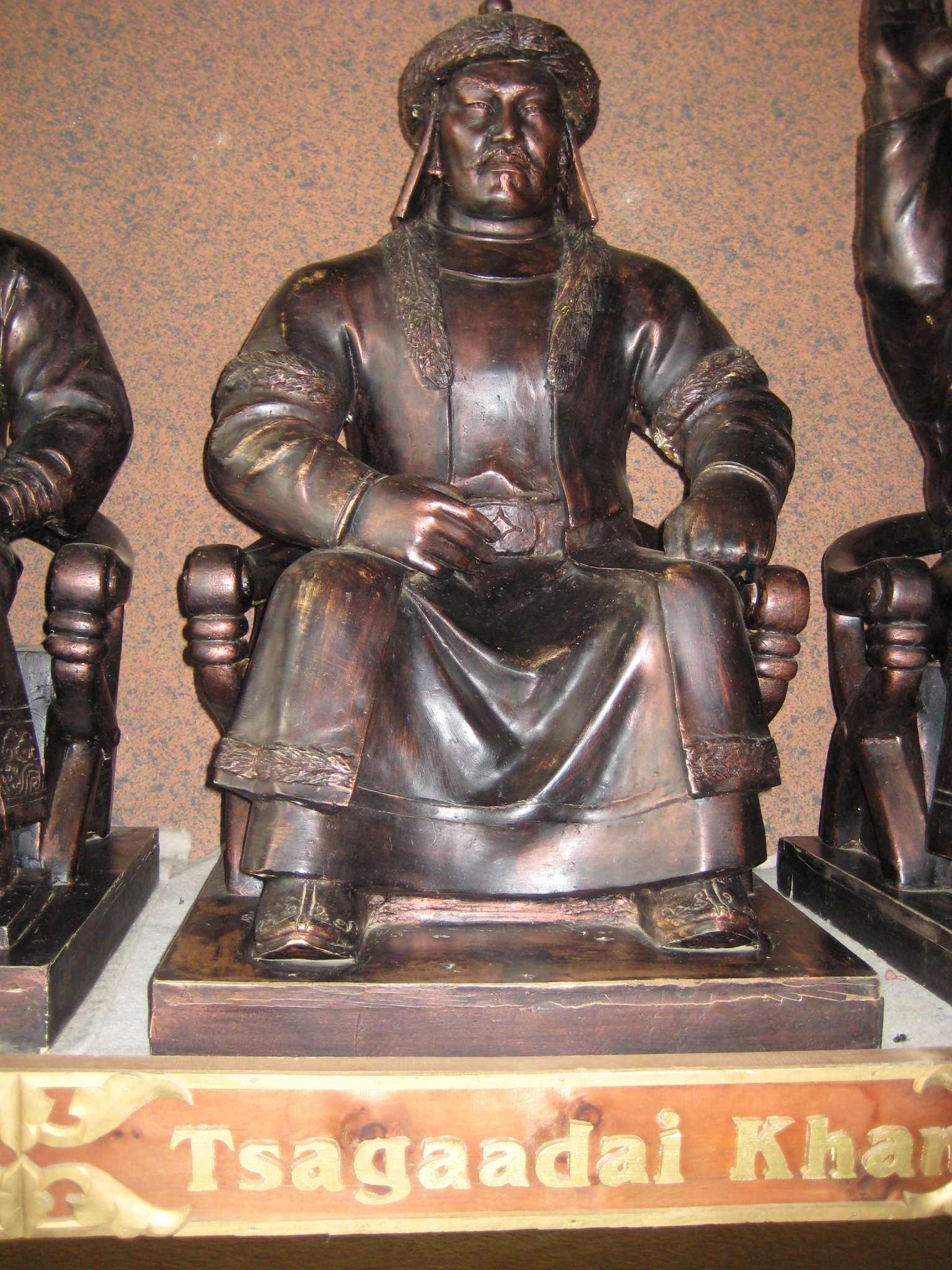 Tsagaatay's statue in Mongol palace, Gachuurt Mongolia